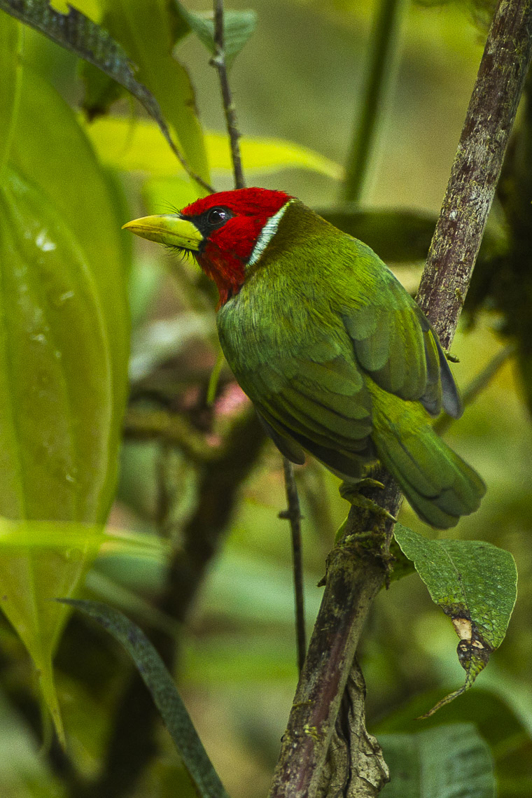 Red-headed Barbet - Colombia_S4E3384